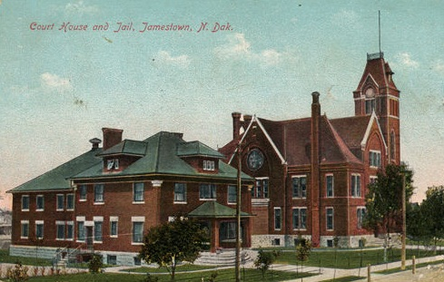 Postcard of Stutsman County Courthouse and Jail, Jamestown, North Dakota. Image is in public domain as published before 1923. Source information from the NDSU web site indicates the postmark on the card was May 21, 1913.